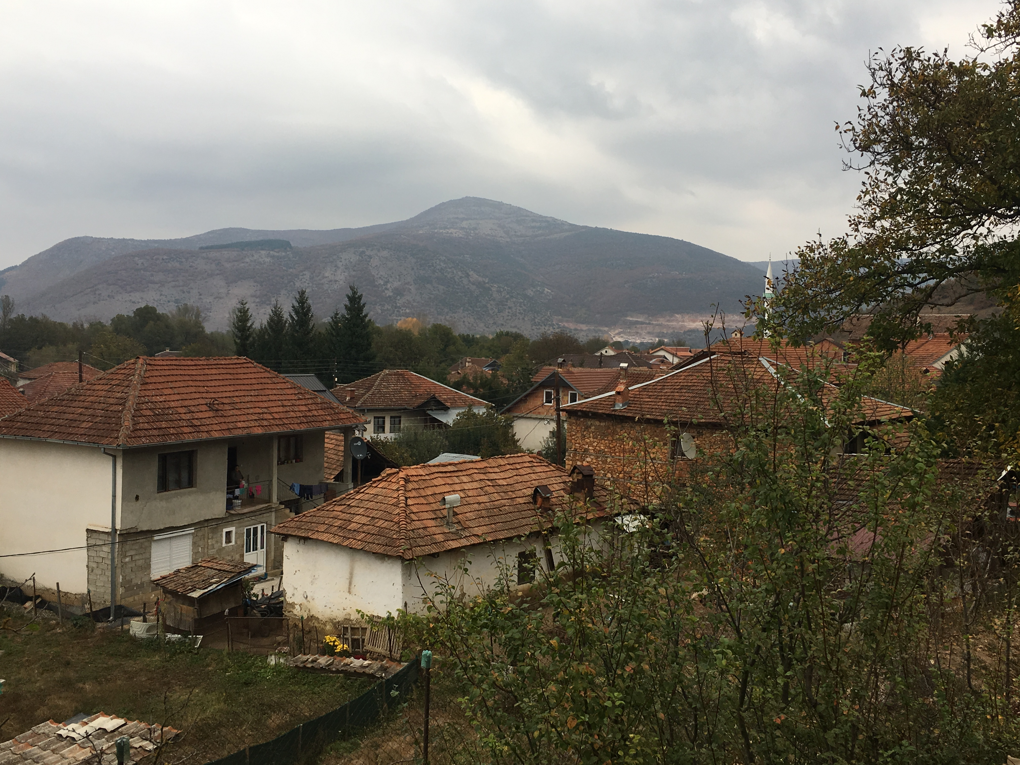 Wikiexpedition to Kopačka